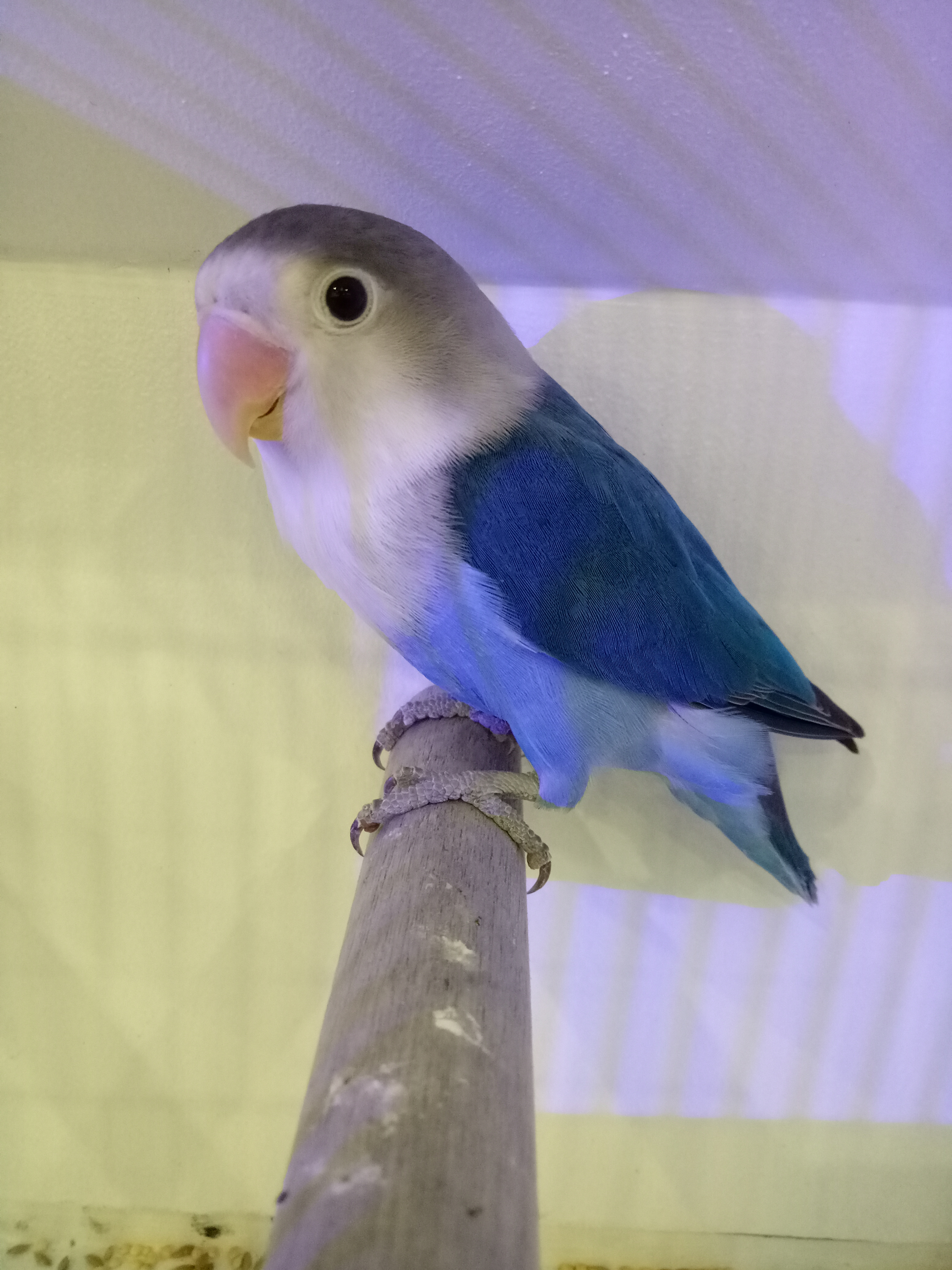 Violet Fischer's lovebird (Agapornis fischeri) taken during the 1st Philippine Avicultural Federation Agapornis Bird Show at Starmall, Alabang, Muntinlupa City